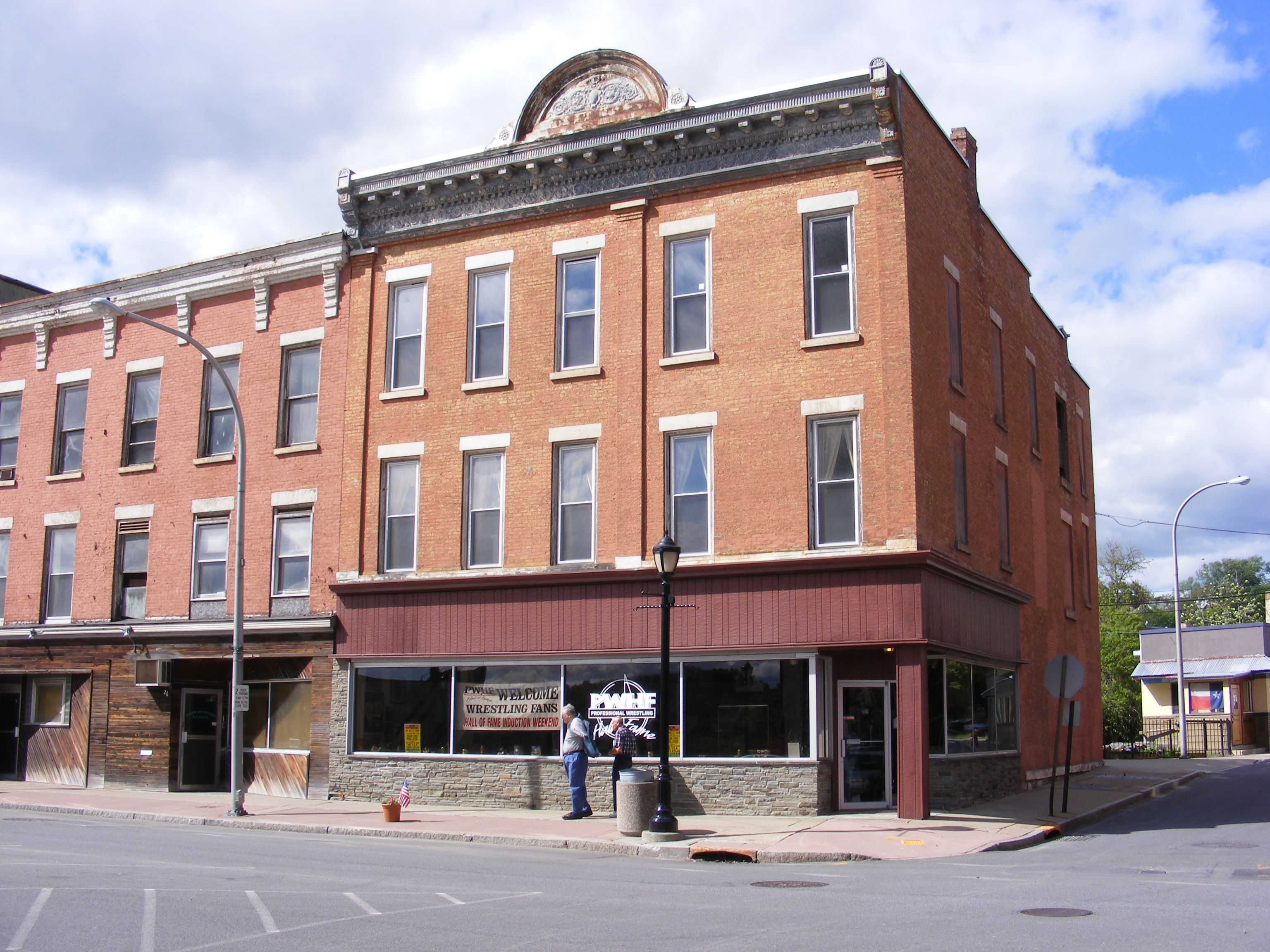 The Professional Wrestling Hall of Fame building in Amsterdam, New York in May 2008.